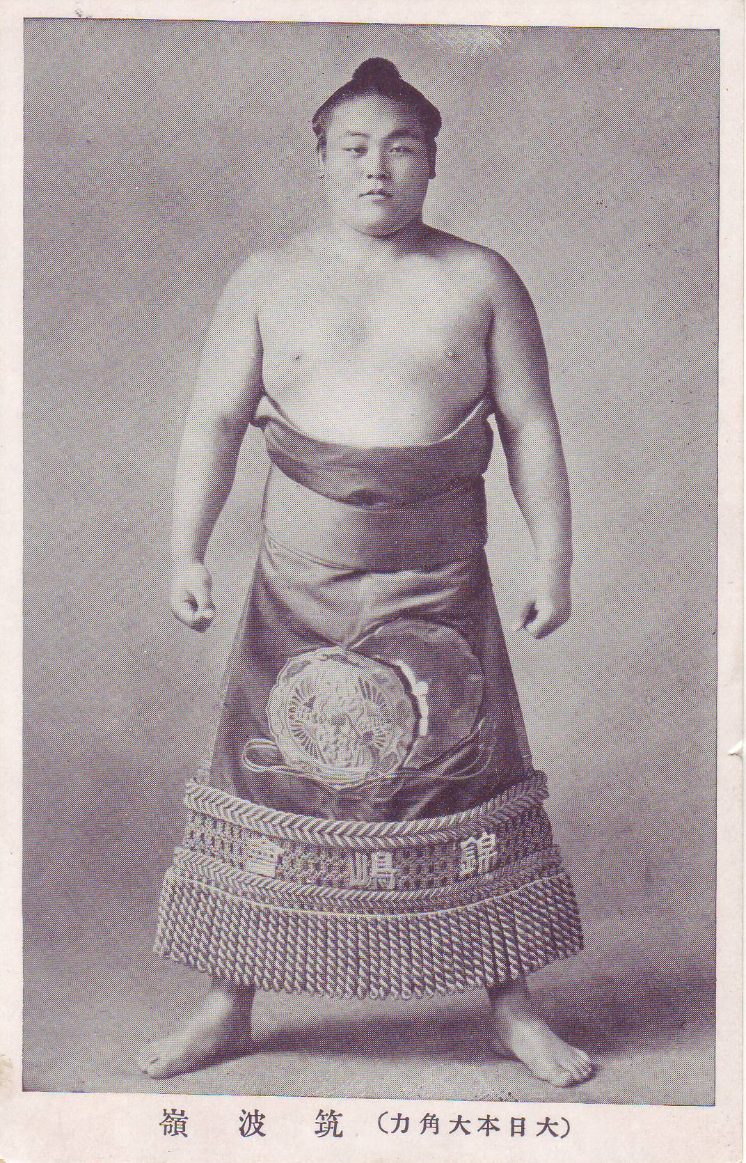 Seihei Tsukubane (sumo wrestler. Maegashira).